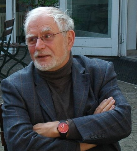 Jörn Rüsen, German historian (1938-)